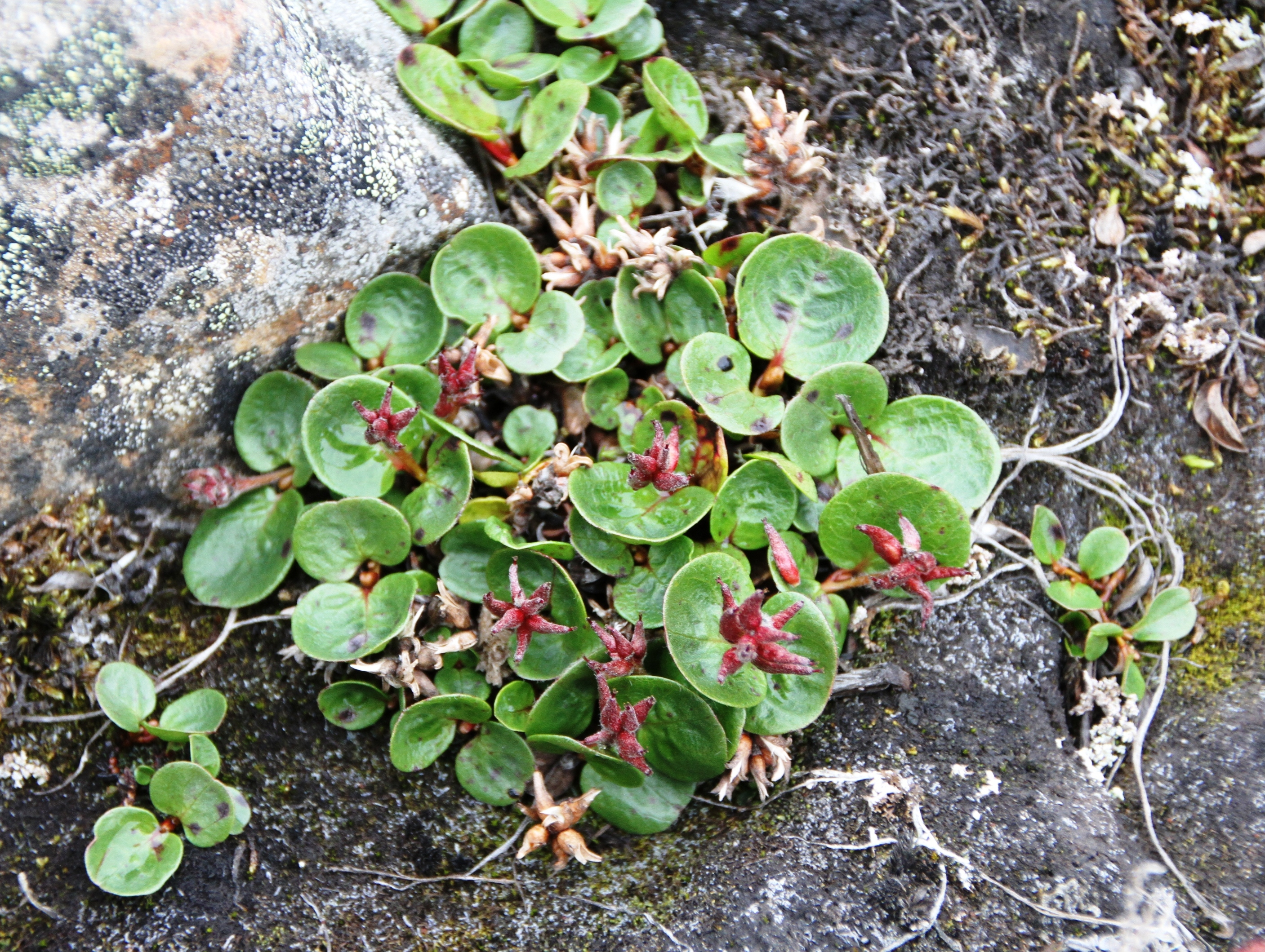 Salix polaris (norwegian: polarvier) observed close to Adventdalen, central Spitsbergen (Svalbard).